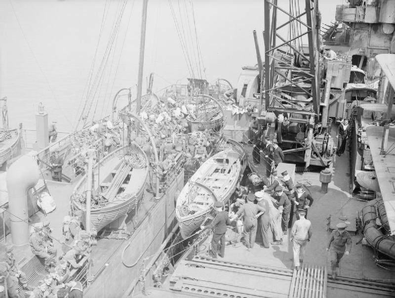 Army Troops Embarked in the Cruiser HMS Manchester. July 1941. Troops embarking on board MANCHESTER. Sailors watching the soldiers coming on board.